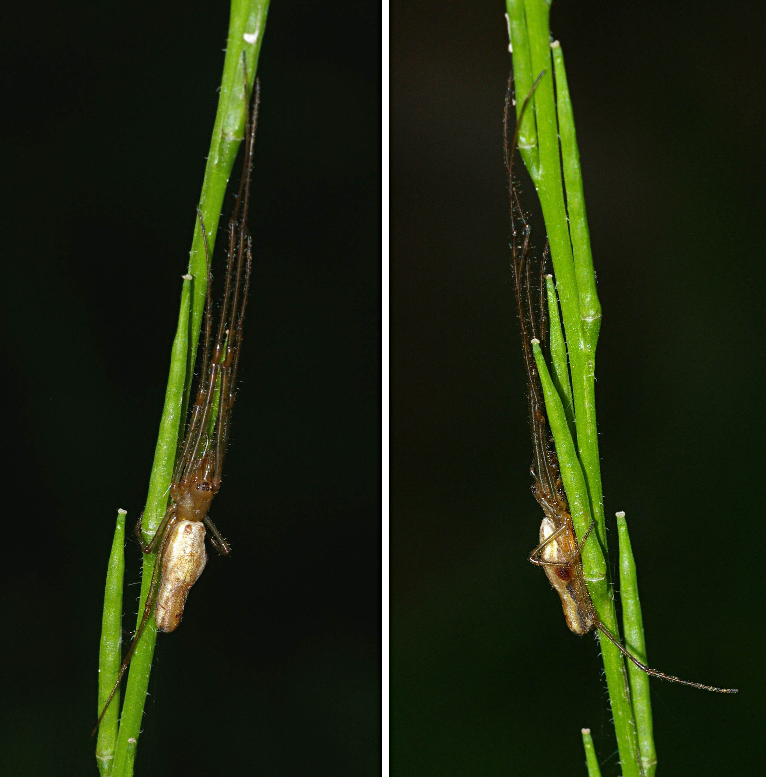 Specimen of the spider Tetragnatha montana, sitting on a plant of Sisymbrium officinale.